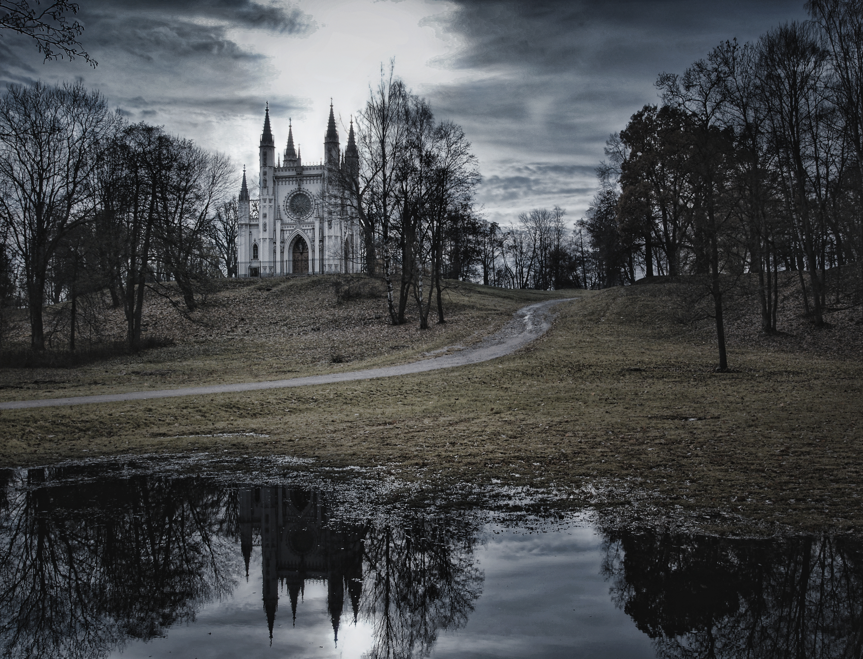 Church of Saint Alexandr Nevsky (“Capella”) in the Alexandria Park, Peterhof.